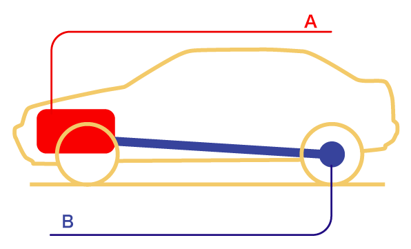 A front engine rear-wheel-drive conception diagram of a car terminology. The part pointed at in "A" is the engine. And the part pointed at in "B" is the driving wheel/axle